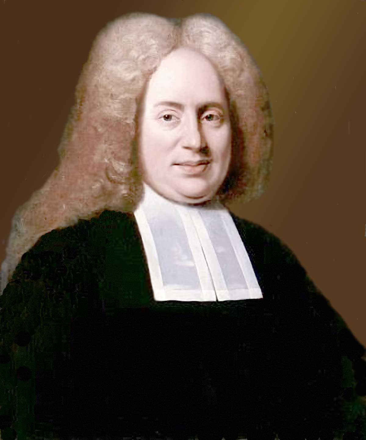 Friedrich Adolf Lampe (1683-1729) Theologian from Germany